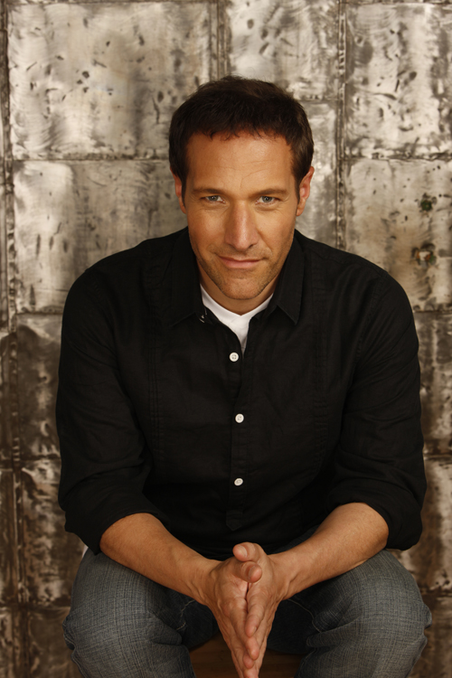 Photo shoot 2008 Jim Brickman (official authorized photo)